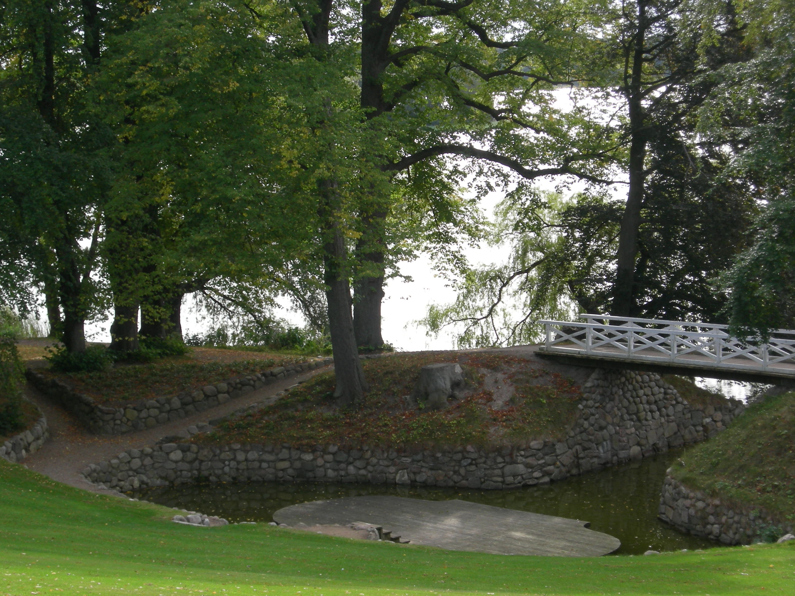 The park at Sophienholm in Lyngby, north of Copenhagen, Denmark